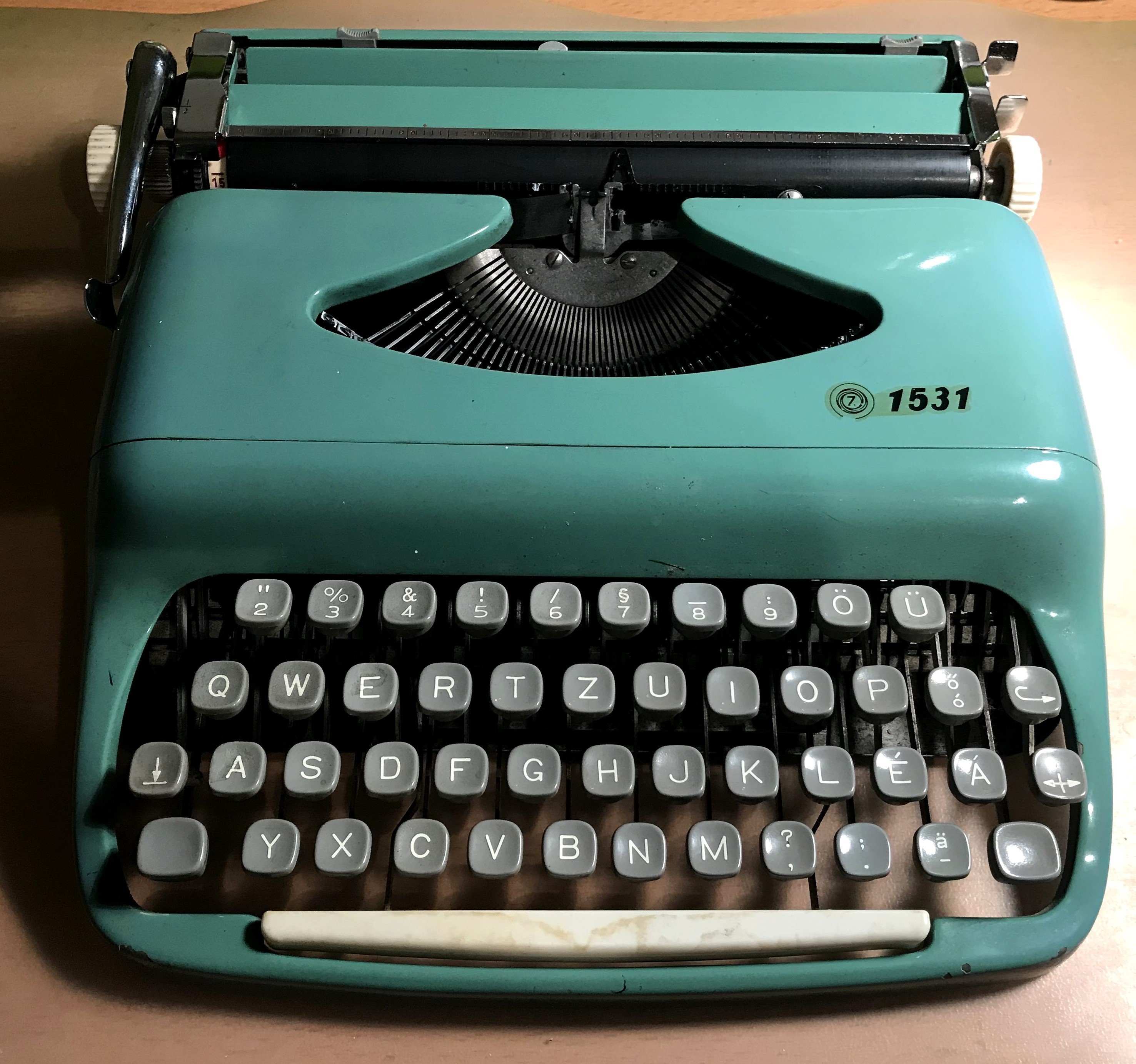 Typewriter (Z1531) of Hungarian writer, journalist Tamás Pintér